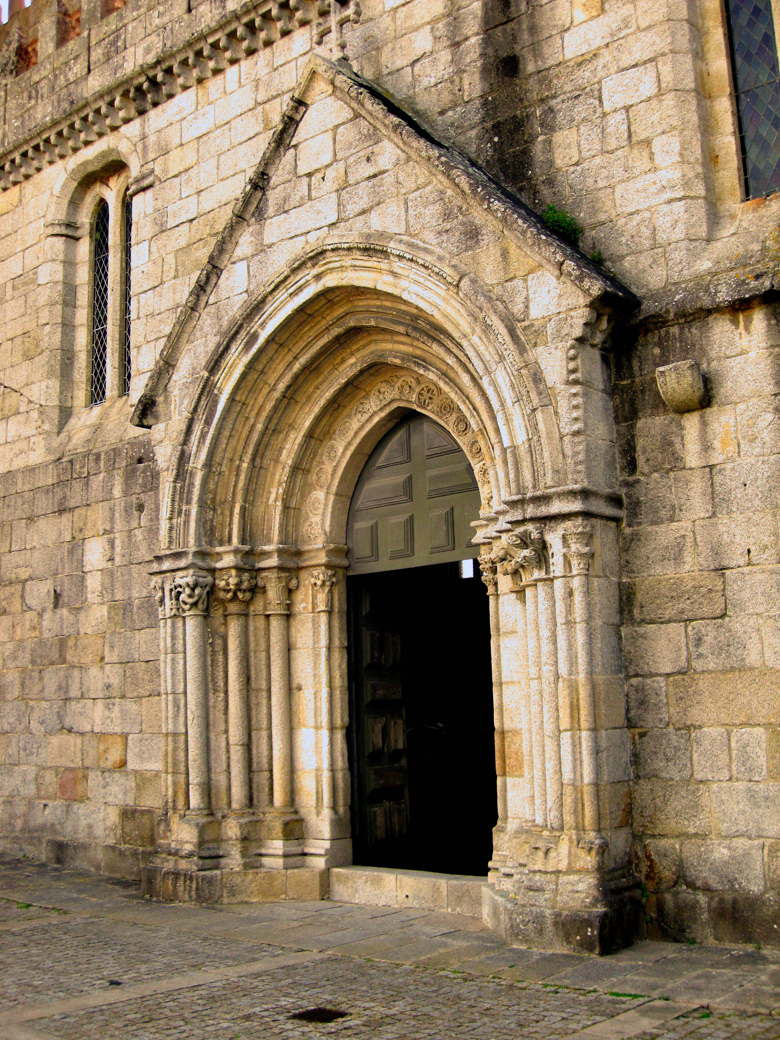 Monastery of Leça do Balio - Matosinhos - Portugal